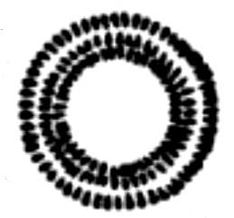 Map of earthworks at Roddenbury Camp, Somerset, England.